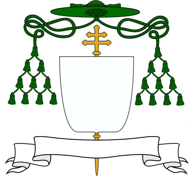 Arcbishop coat of arms (version without pallium)